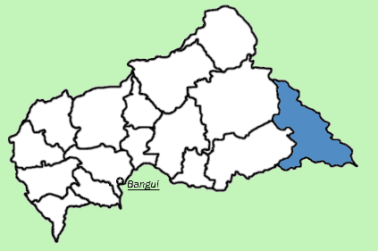 Map showing location of Haut-Mbomou Prefecture in Central African Republic